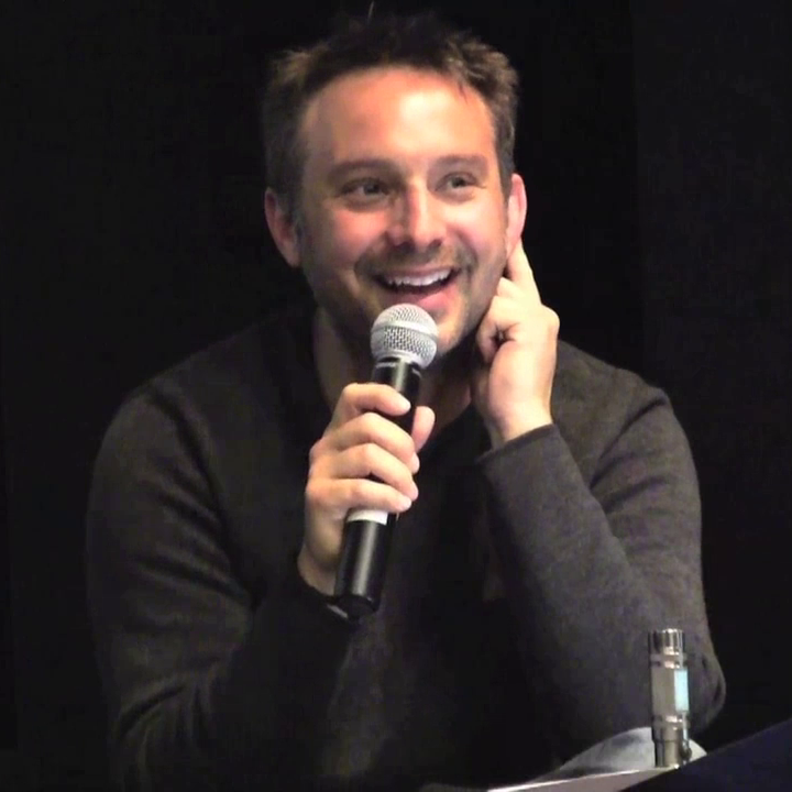 Excerpt from a Q&A session with South Park Animation Director, Eric Stough, following a screening of the episode "A Nightmare on Facetime" for IFS at University of Colorado Boulder.